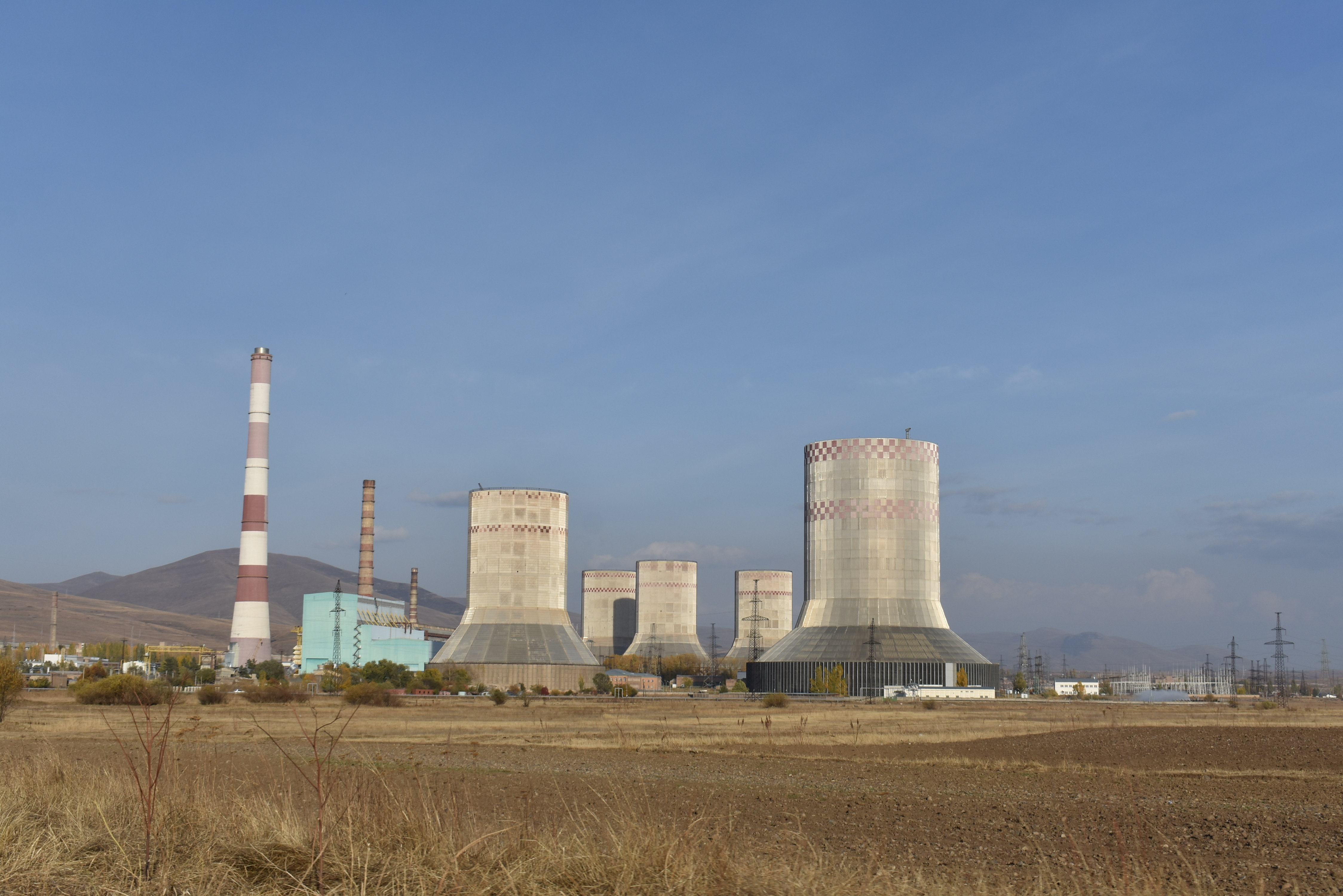 Hrazdan thermal power plant